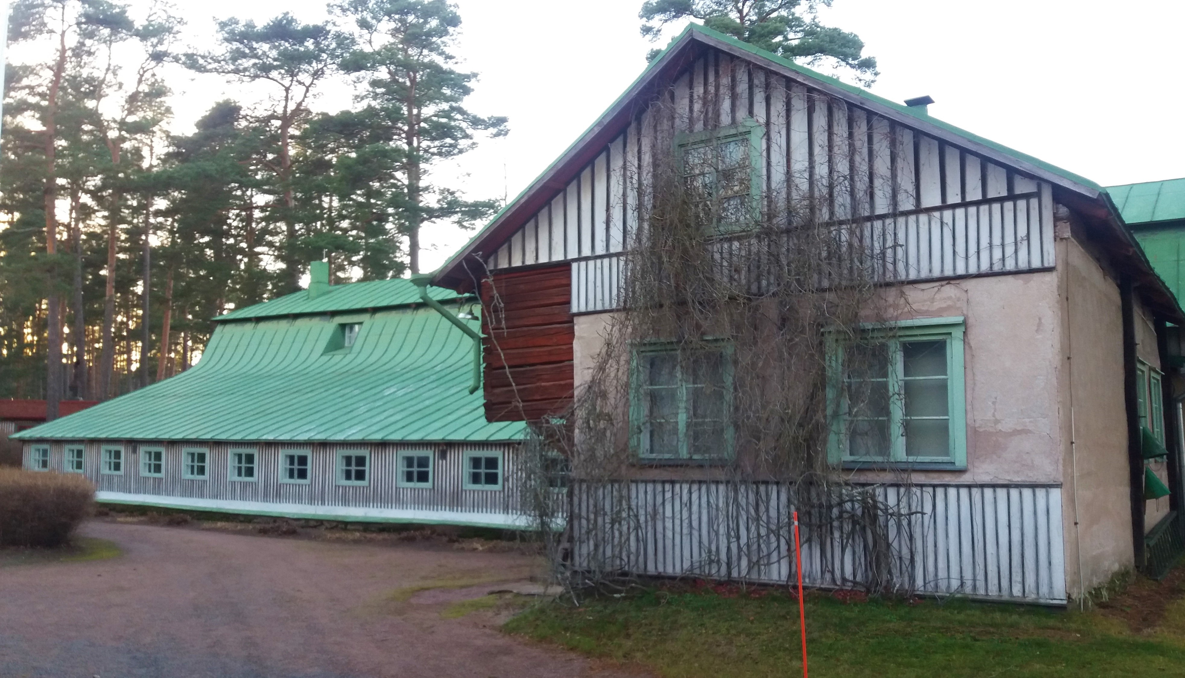 Harjula, the studio and home of the sculptor Emil Cedercreutz (1879-1949) in Harjavalta, Finland. A part of the Emil Cedercreutz Museum.